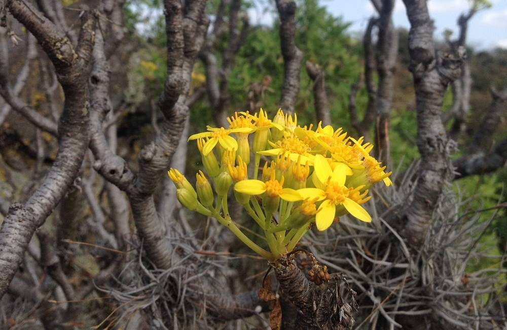 This photo shows the short-lived inflorescence of Pittocaulon praecox (aka Senecio praecox), a plant from rocky lava flows in south-central Mexico.